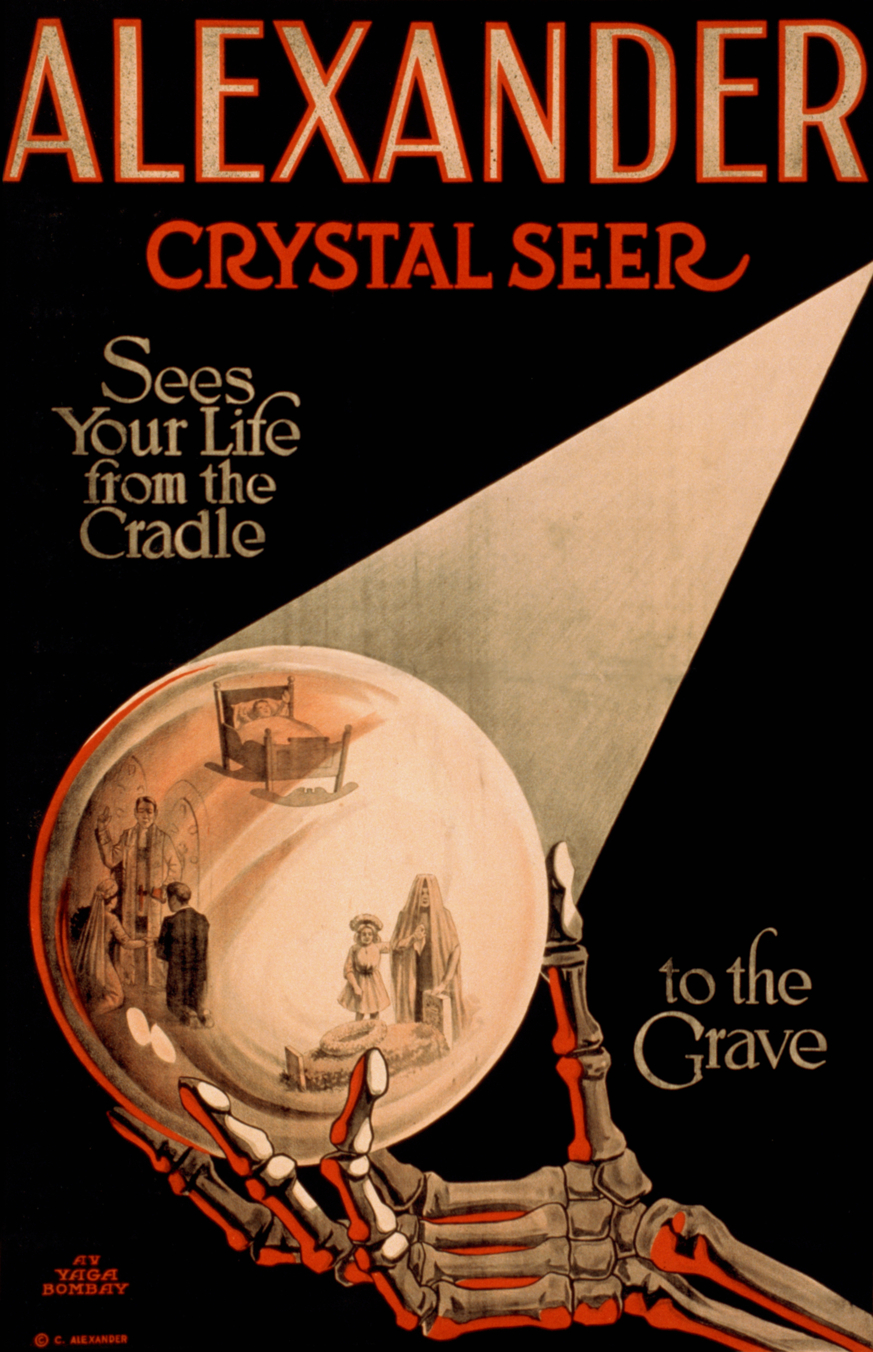 Title: Alexander, crystal seer sees our life from the cradle to the grave. Abstract/medium: 1 print : color lithograph ; sheet 108 x 72 cm. (poster format)